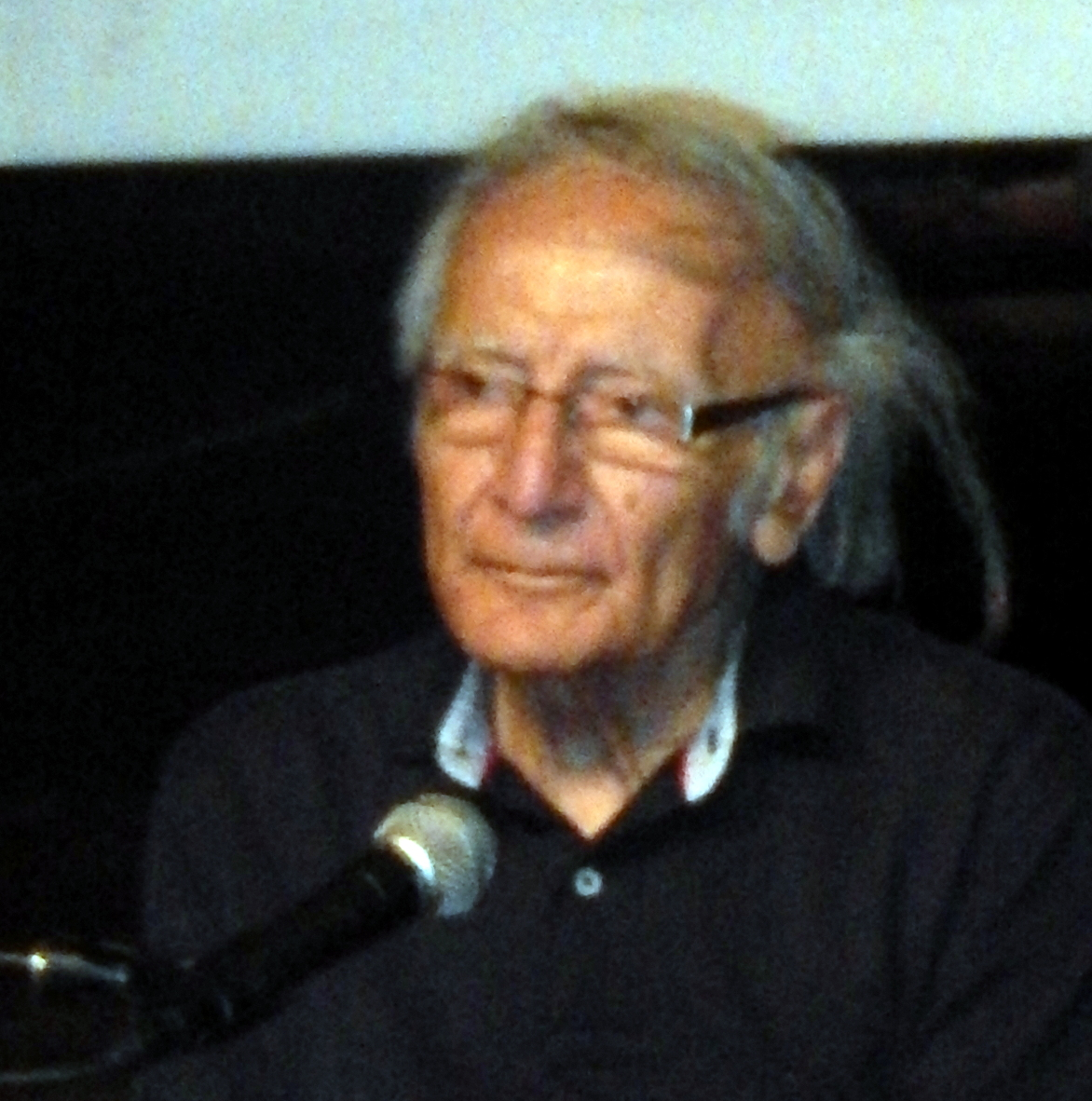 Arto Chakmakchyan